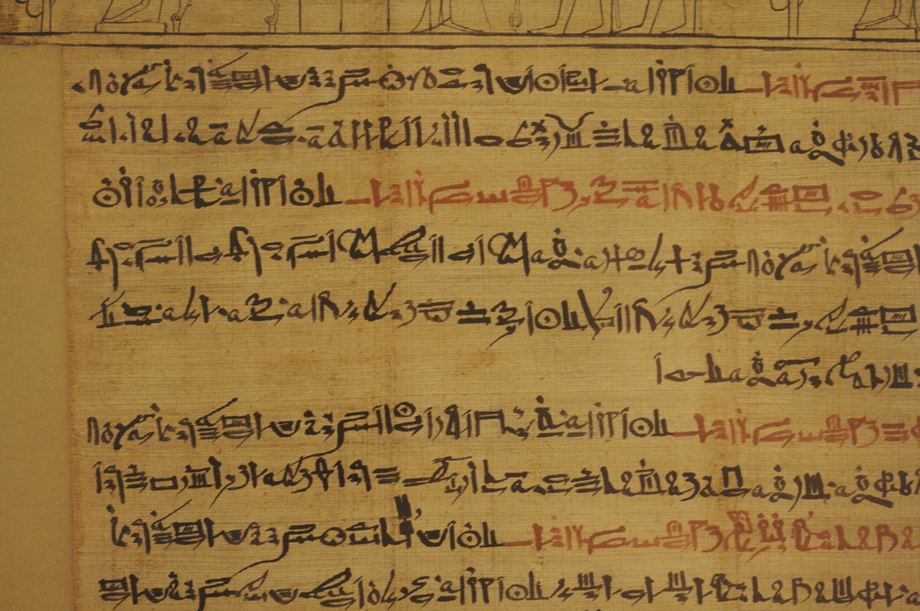 A hoard of photos from a day trip to London. We started in Greenwich at the Royal Observatory, and then spent most of the evening at the British Museum. These are uncleaned and unedited; all I've done is shrunk to make it faster to upload them. I'll post some of my faves to my "real" Flickr account as time and mood permits. A hoard of photos from a day trip to London. We started in Greenwich at the Royal Observatory, and then spent most of the evening at the British Museum. These are uncleaned and unedited; all I've done is shrunk to make it faster to upload them. I'll post some of my faves to my "real" Flickr account as time and mood permits.